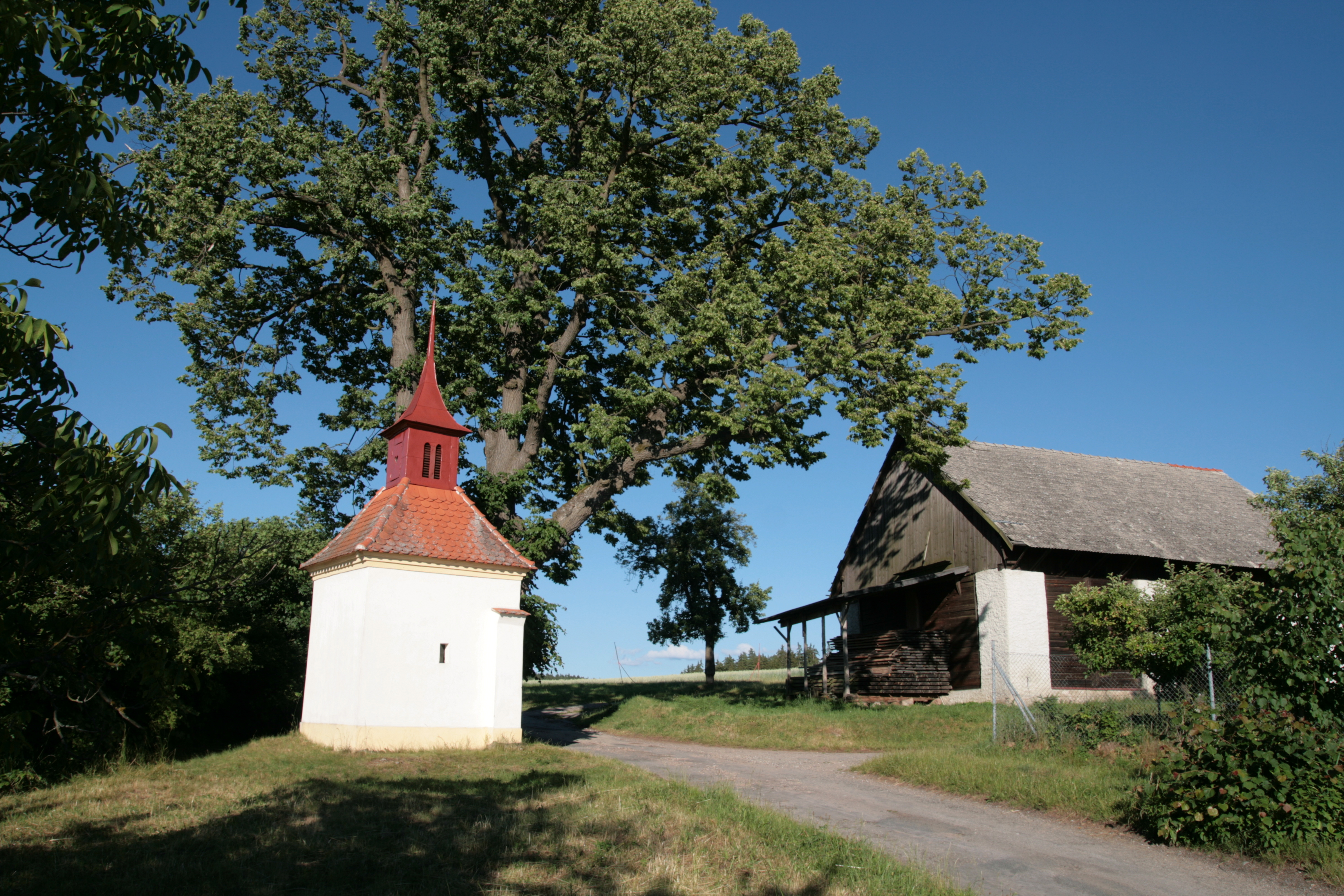 Hájek, part of Tišnov town, Brno-Country District, Czech Republic.